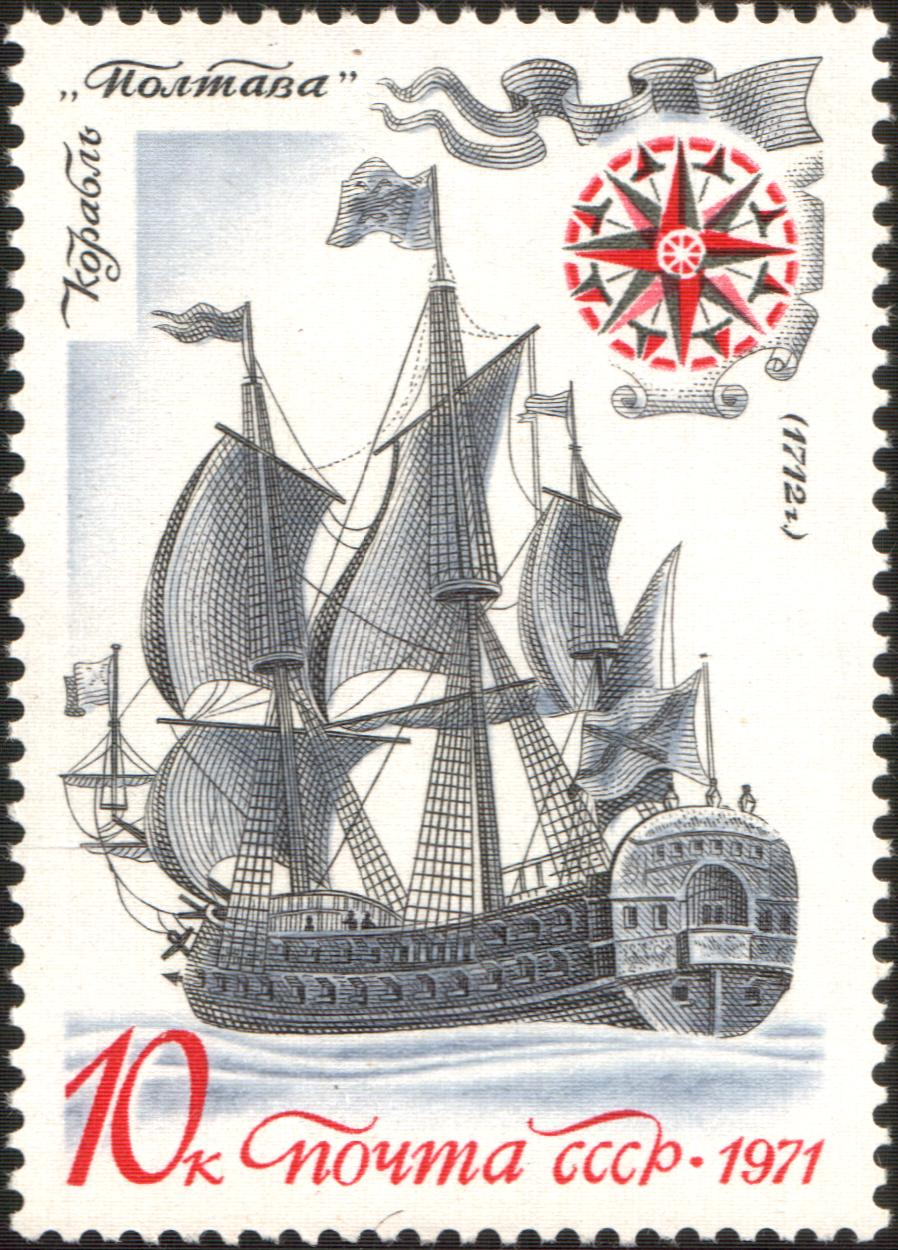 USSR stamp: Russian Ship of the Line Poltava, 1712. Series: History of the Russian Navy. Sailing Ships